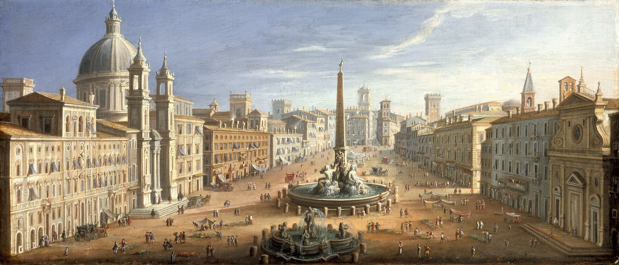 Holland, circa 1730 Paintings Oil on canvas William Randolph Hearst Collection (49.17.3) European Painting